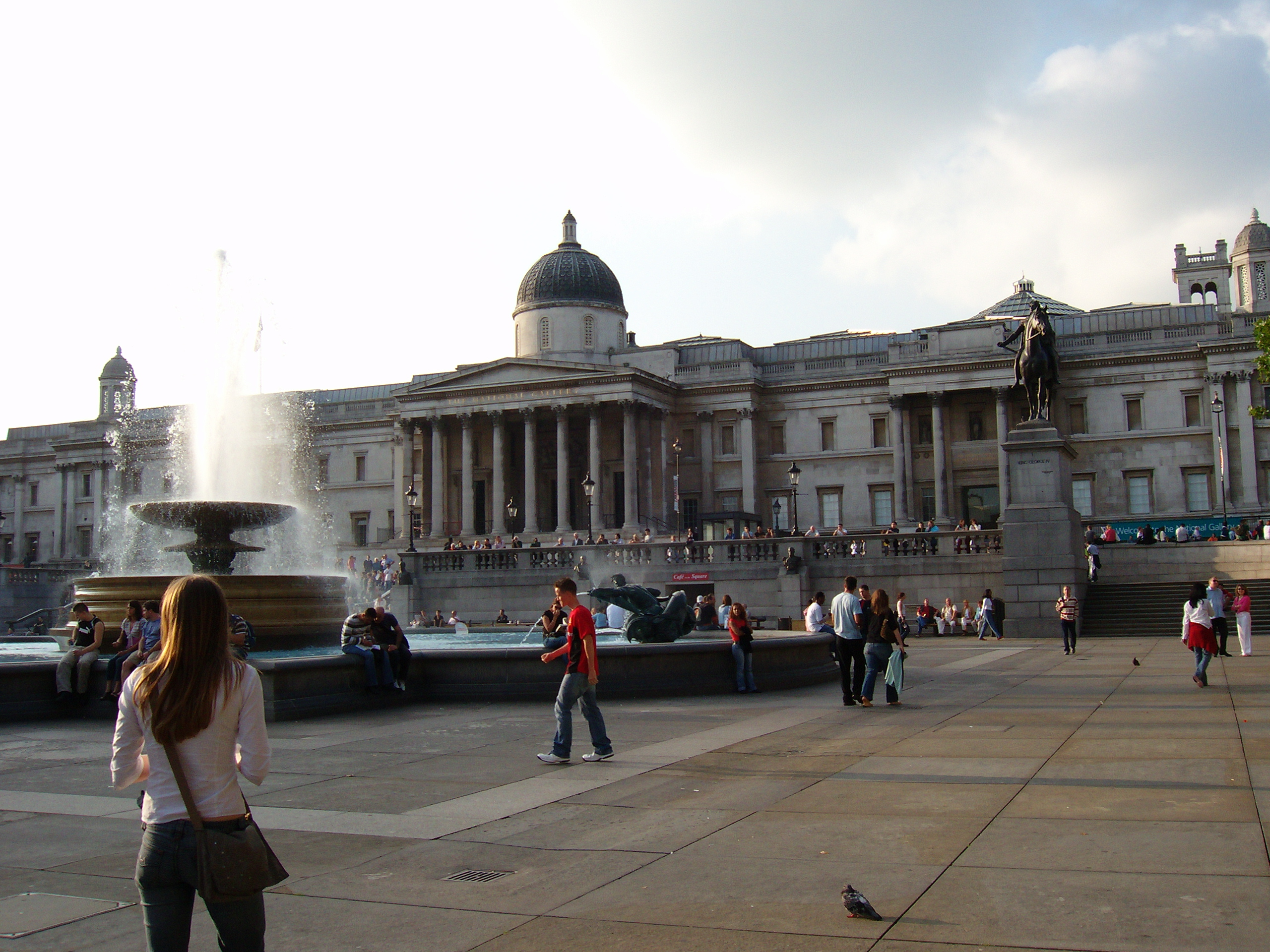 View across Trafalgar Square to the National Gallery, London. (C) Gerry Lynch, 2005.